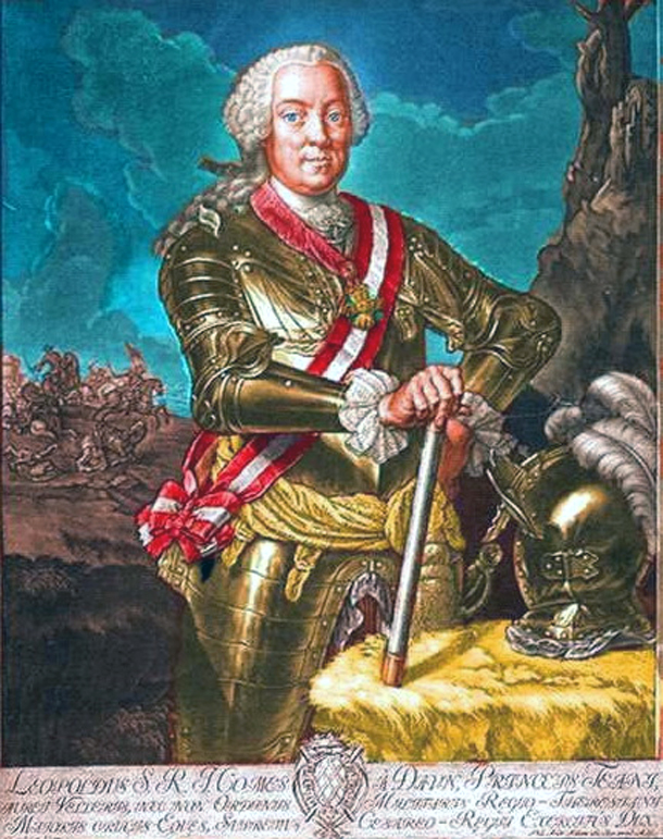 Leopold Joseph von Daun (1705—1766)